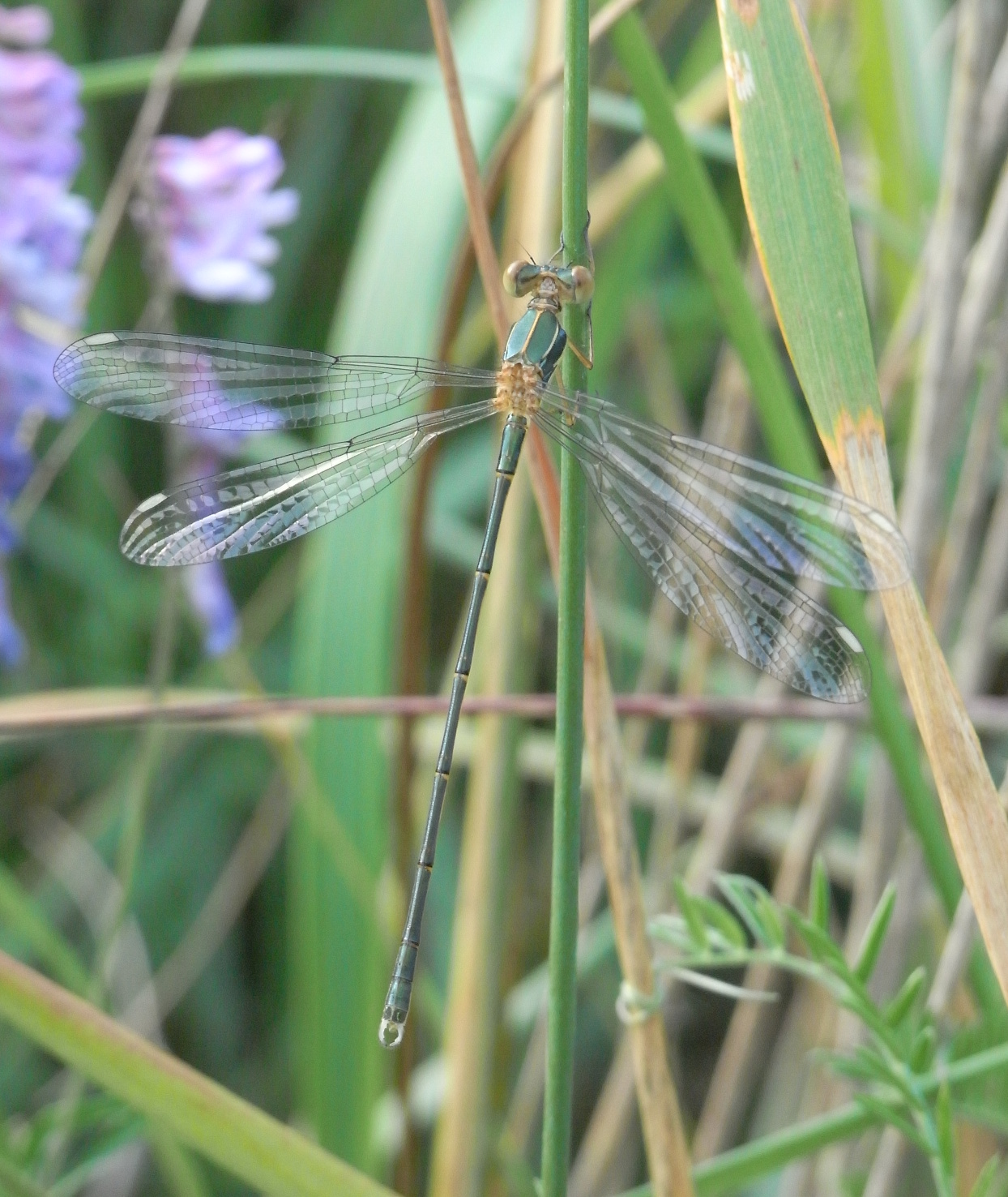 Male Willow Emerald Damselfly (Chalcolestes viridis) near Hamburg, Germany.